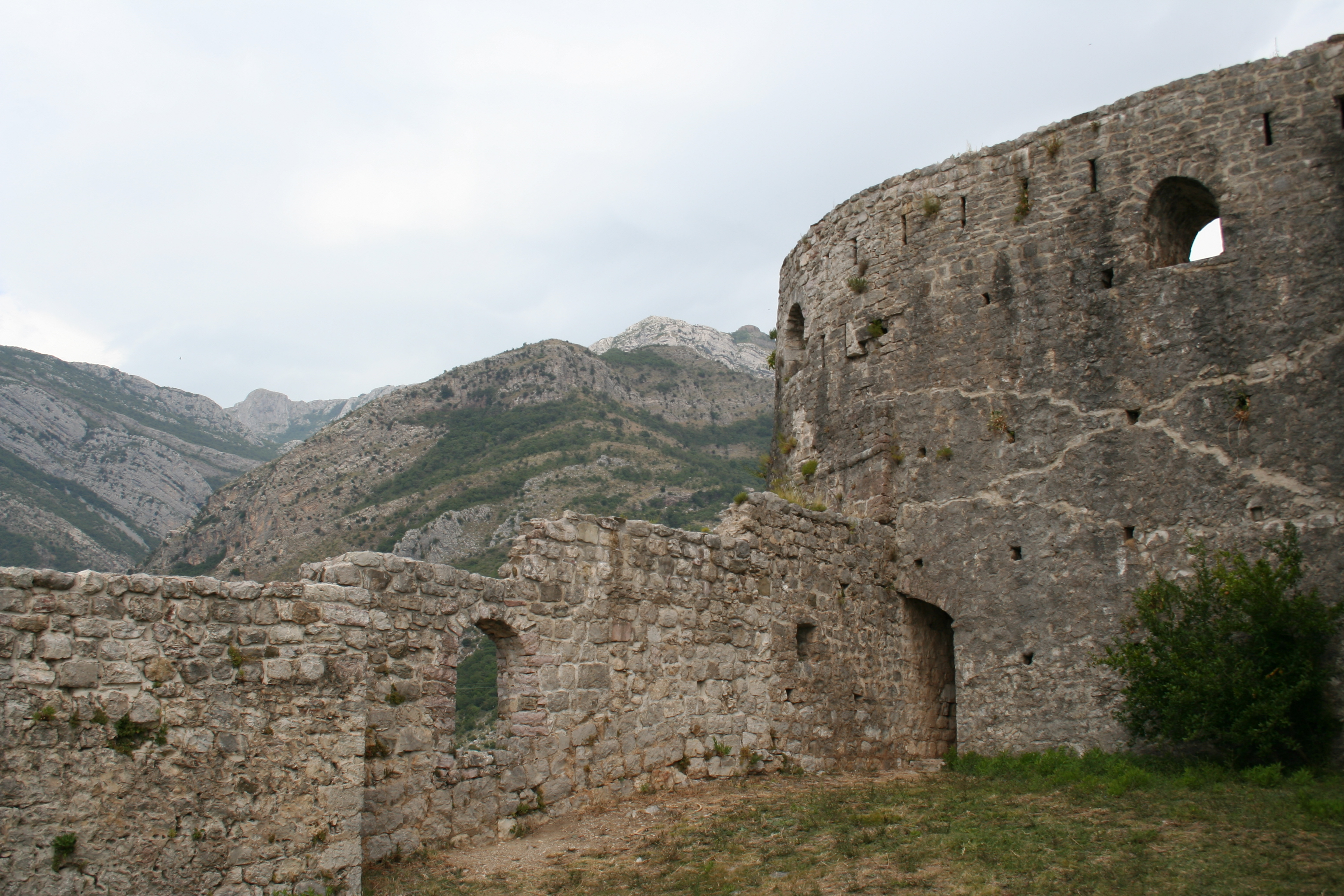 Ruins in the Stari Bar, Montenegro.